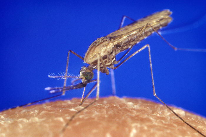 ID#:1354 Anopheles gambiae mosquito feeding Anopheles gambiae mosquito. A malaria vector. Parasite.